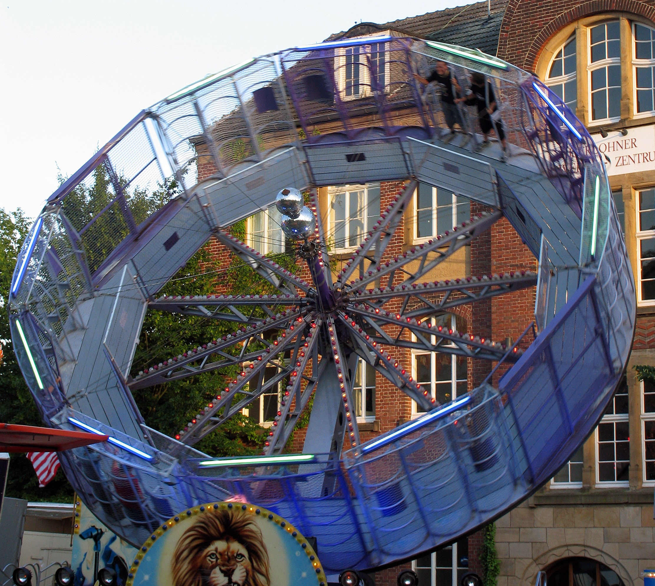 Round Up